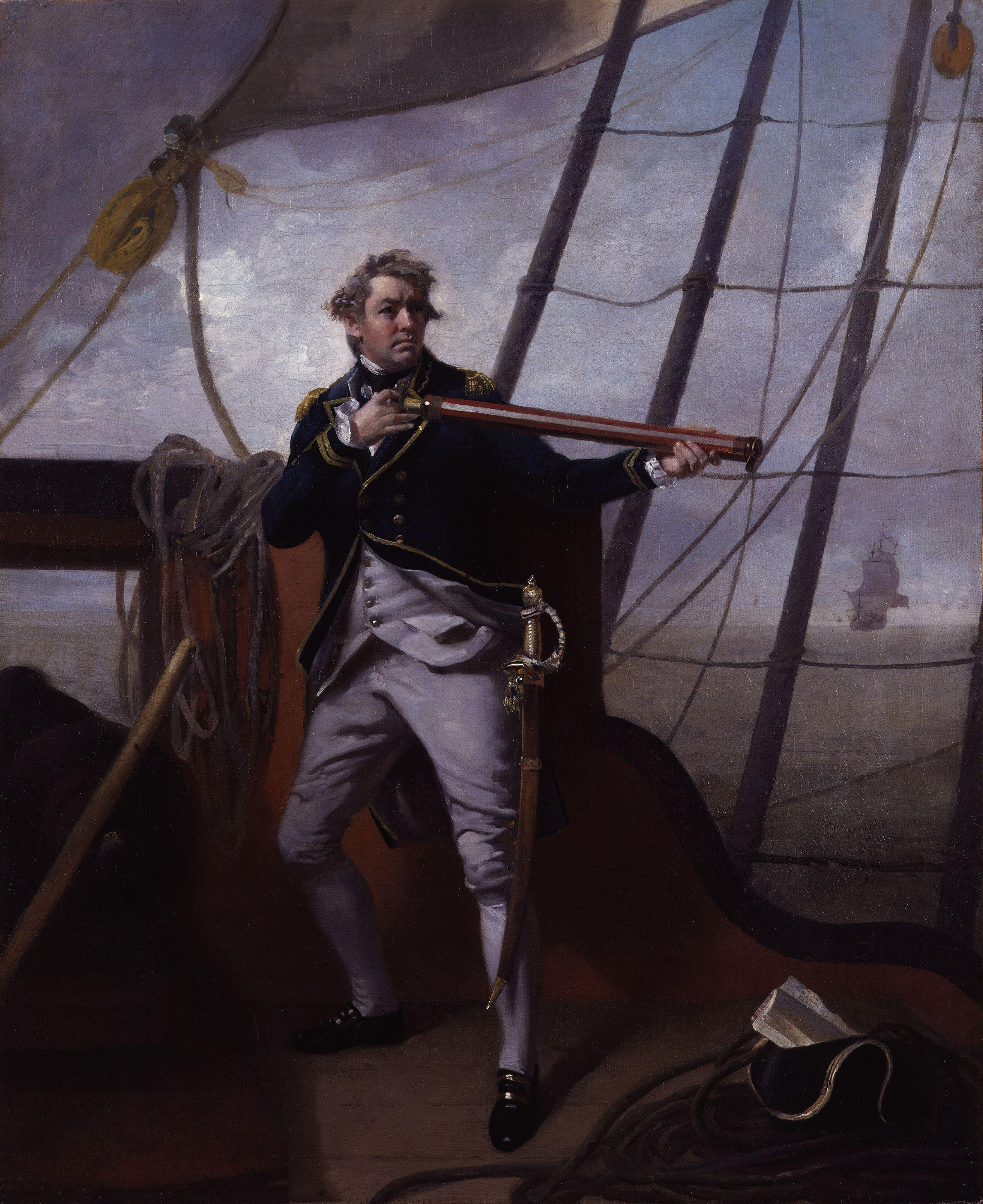 Adam Duncan, 1st Viscount Duncan, by Henry Pierre Danloux (died 1809). All images in this batch have been confirmed as author died before 1939 according to the official death date listed by the NPG.